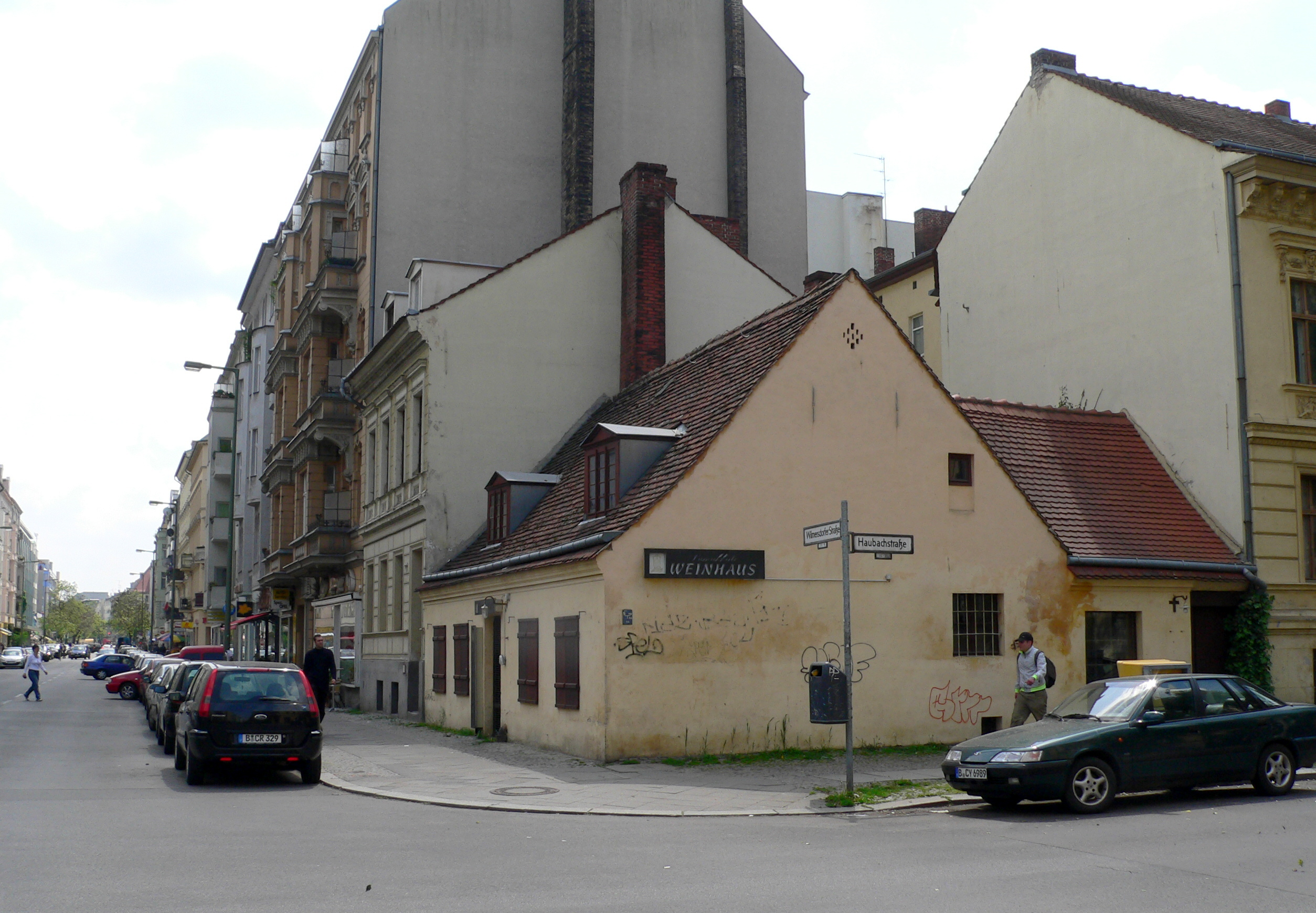 Berlin-Charlottenburg Wilmersdorfer Straße and Haubachstraße